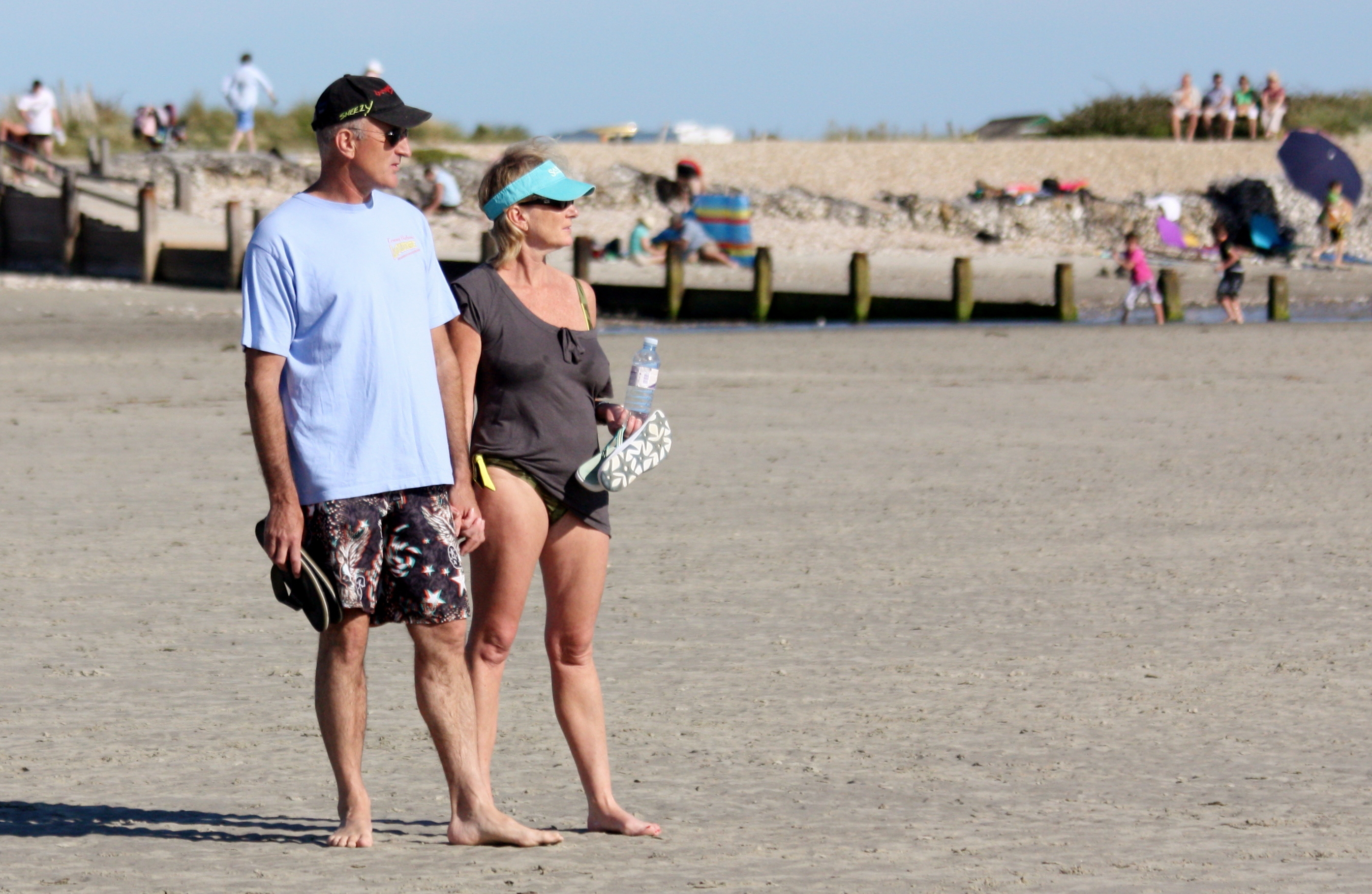 I just thought this good looking couple were well worth a snap. I hope you do too. Her army camouflage bikini was also eye catching but sadly she had put her T-Shirt on before I had the chance to take the picture. I can only imagine that this is what she thinks is meant by 'going commando.' 11/03/12 Today this picture became my 77th picture to reach 1000 views. It took 225 days to reach this target at an average of 4.5 views per day. Well done old timers.